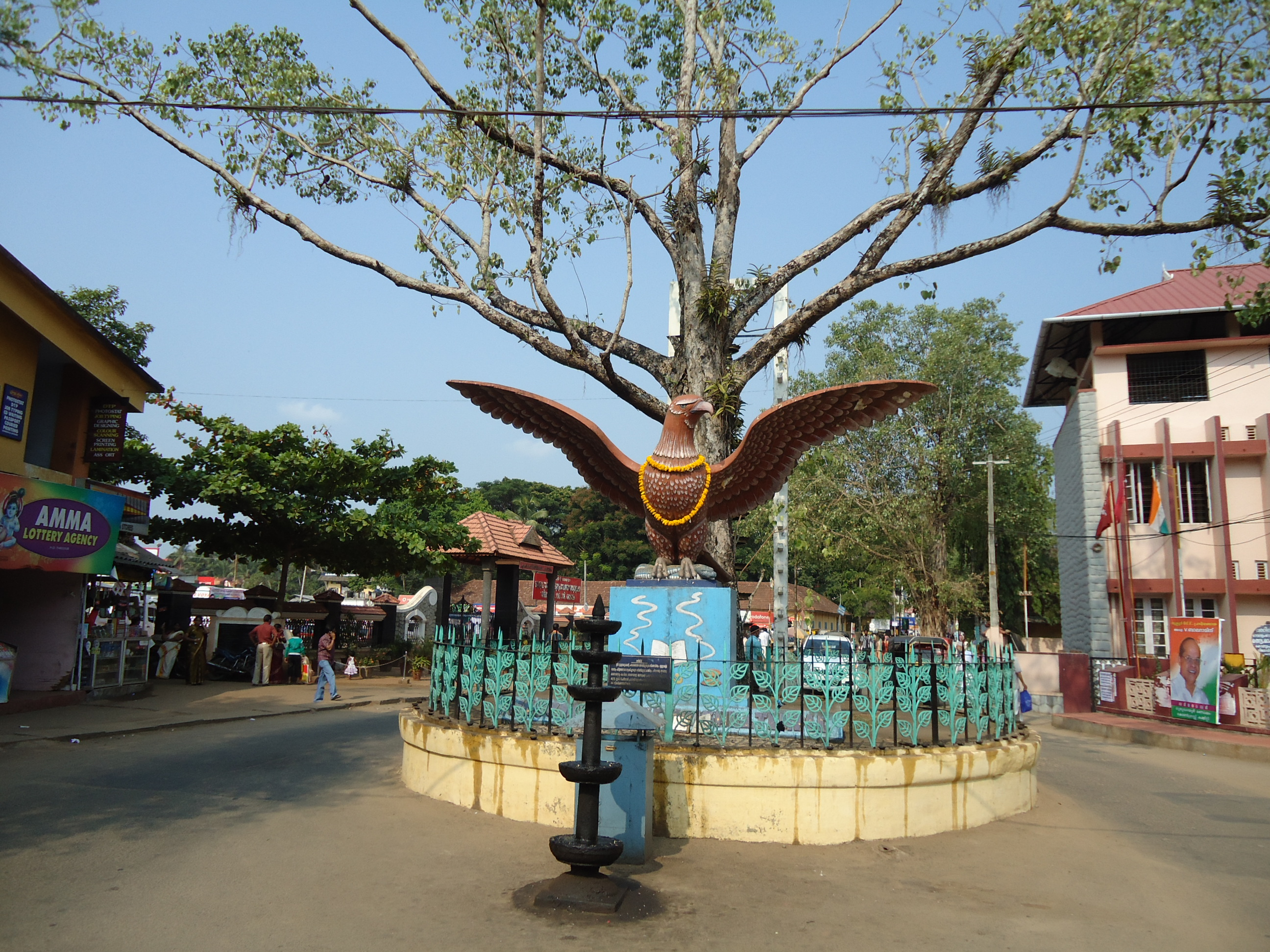 This media file is uploaded with Malayalam loves Wikimedia event.